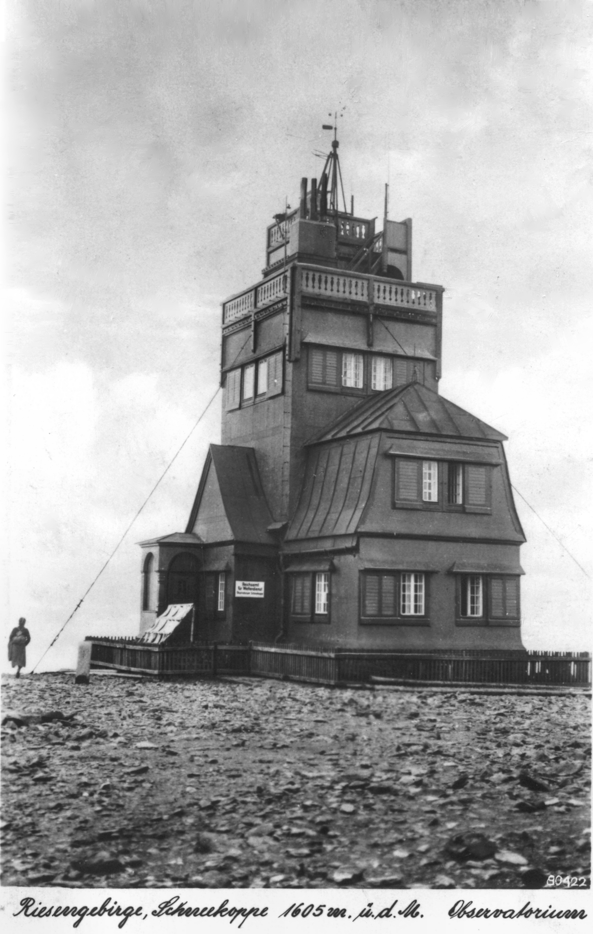 Sniezka, Karkonosze.